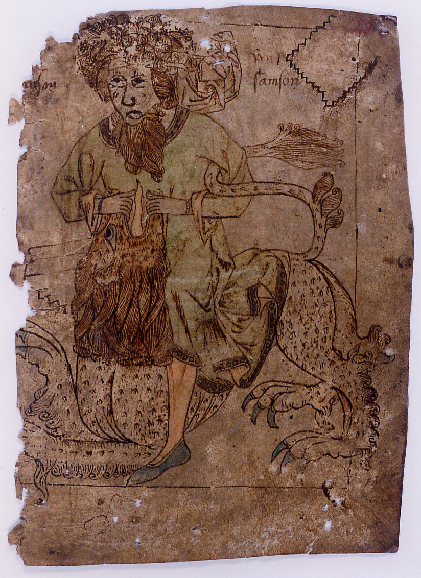 Samson and the lion. From the en:15th century Icelandic manuscript AM 673a III 4to in the care of the Árni Magnússon Institute in Iceland.